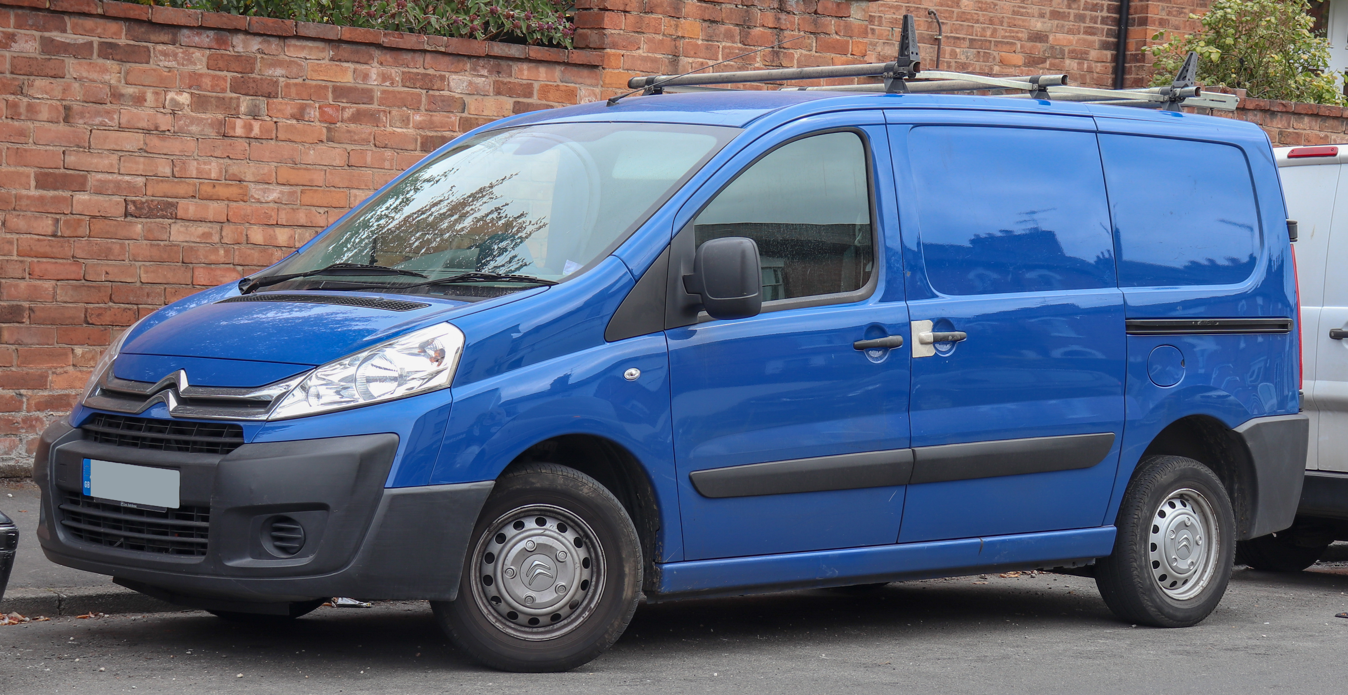 2013 Citroen Dispatch 1000 L1H1 HDi 1.6 Taken in Leamington Spa